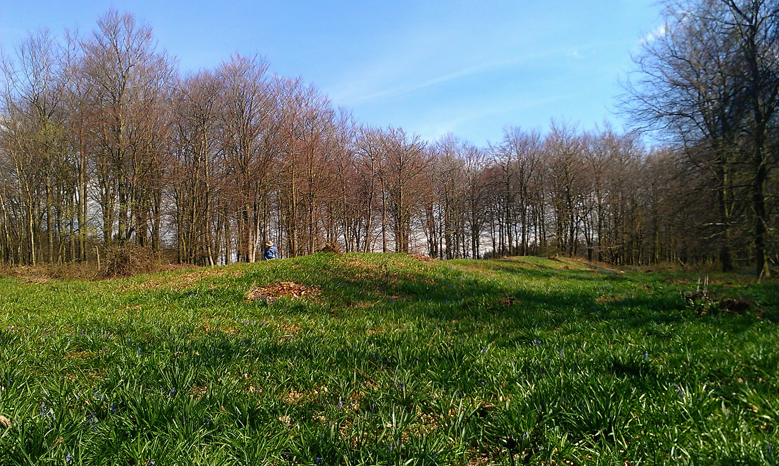 View of Jacket's Field Long Barrow in Kent, taken from the north-western end of the monument looking toward the south-eastern end.